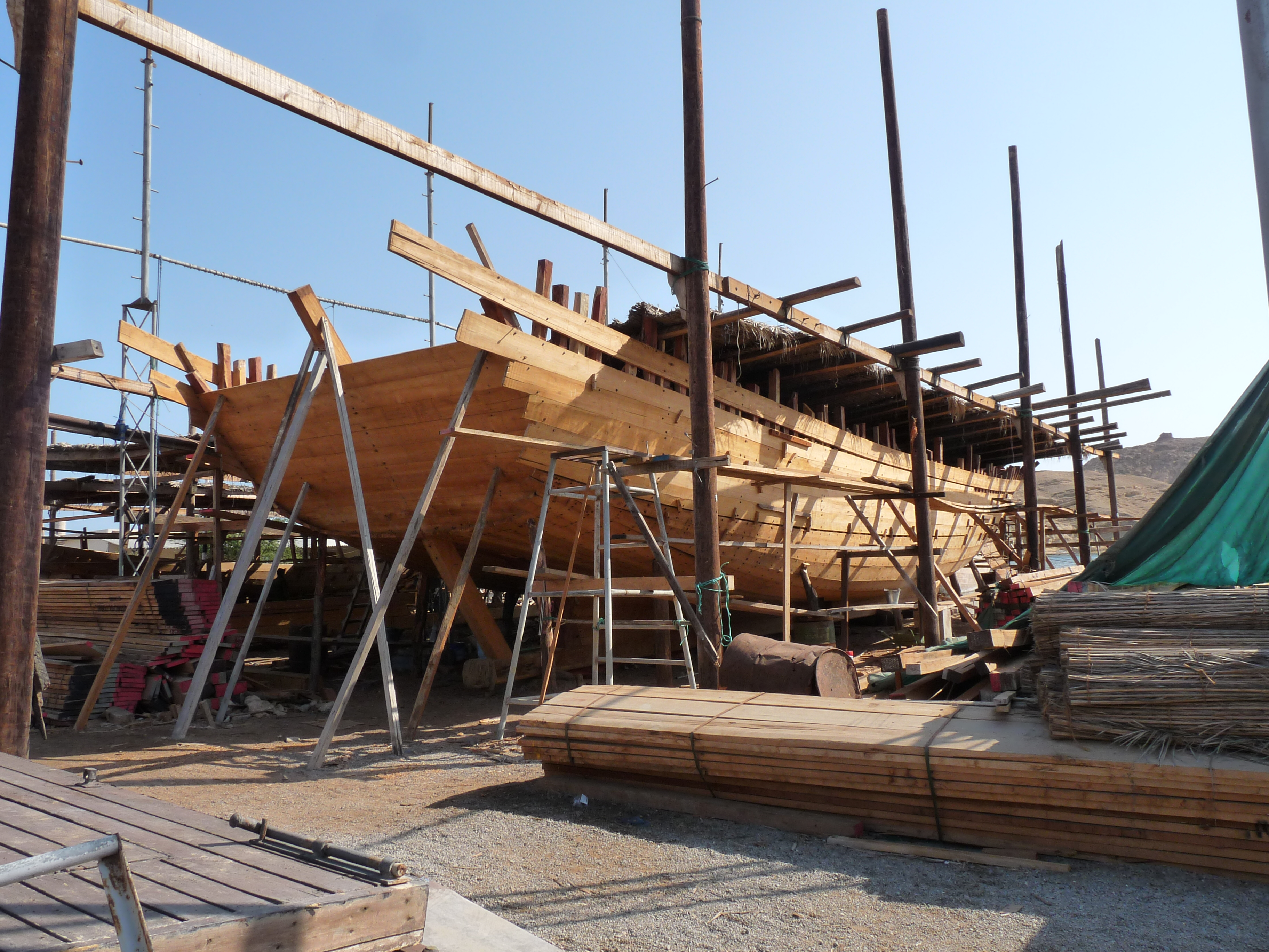 Dhow yard in Sur (Oman)